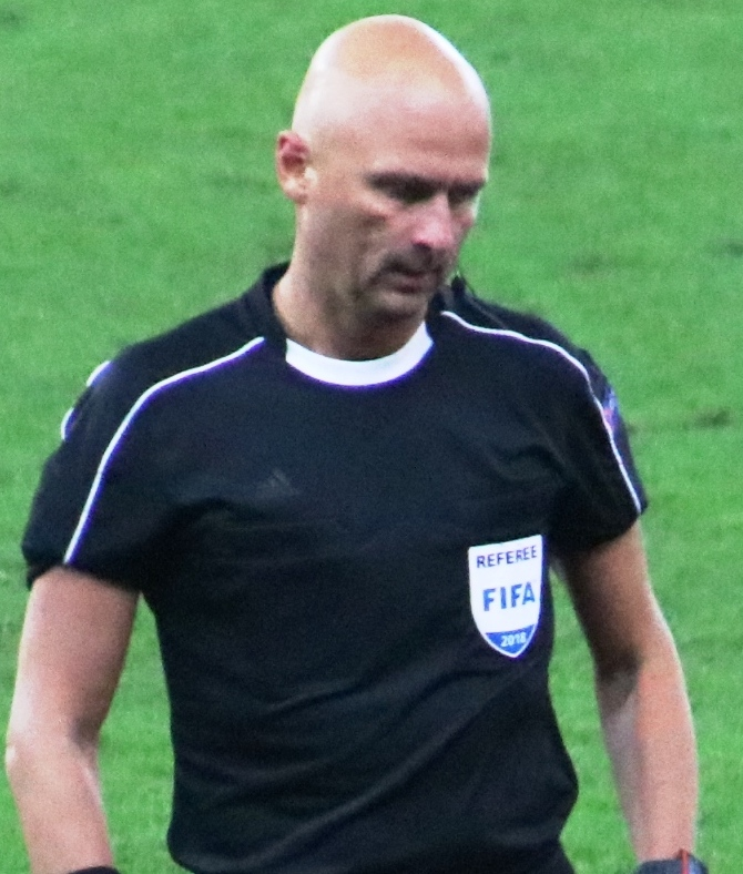 UEFA Europaleague round of 32